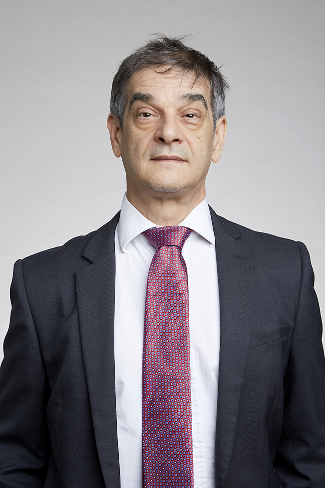 Lawrence Charles Paulson (born 1955) FRS is a Professor of Computational Logic at the University of Cambridge Computer Laboratory and a Fellow of Clare College, Cambridge. Attribution: The Royal Society